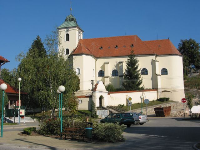 St Martin church in Dambořice, Hodonín District, Czech Republic